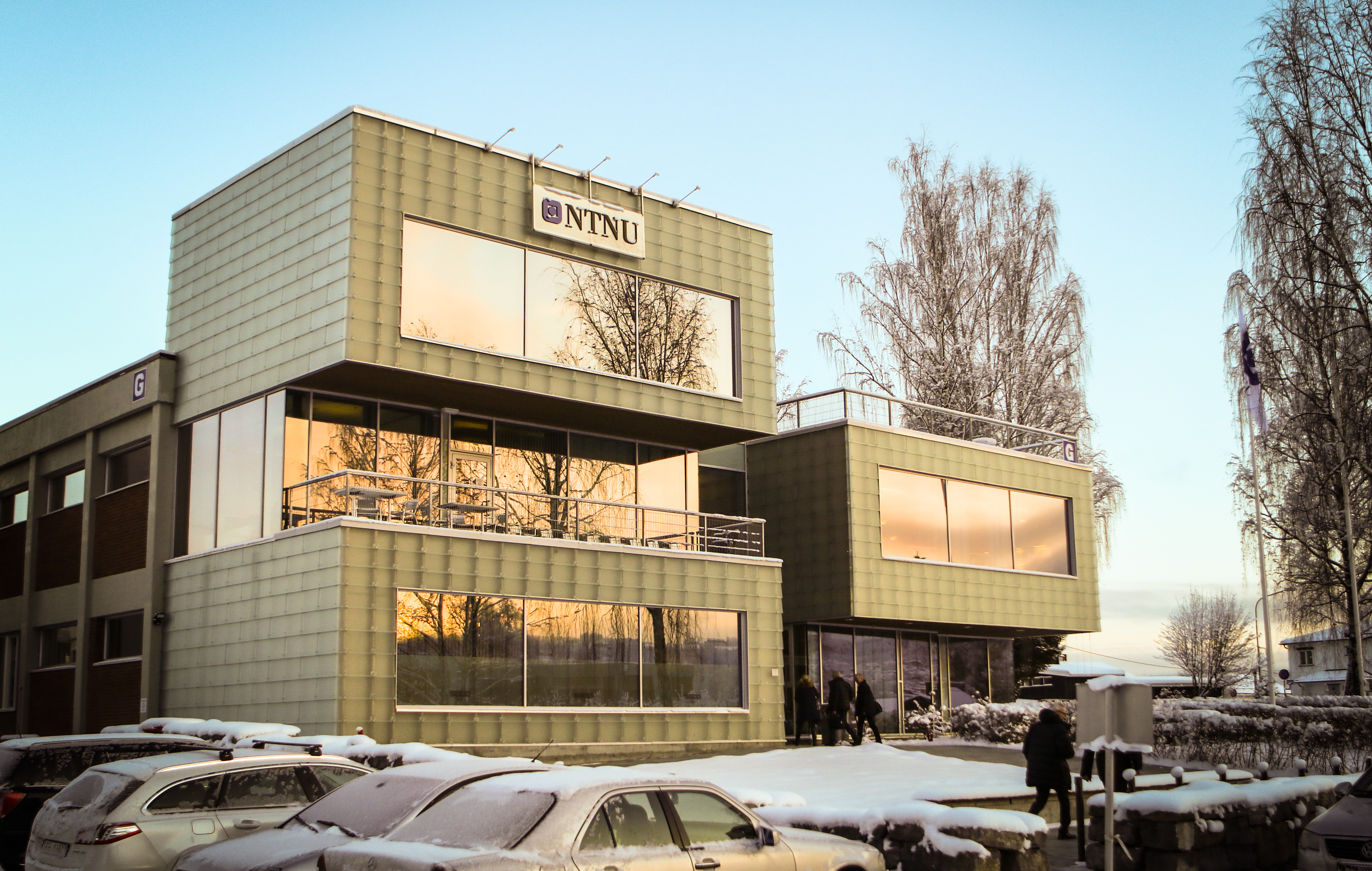 The main building at NTNU (Norwegian University of Science and Technology) in Gjøvik, Norway. Opened in April, 2006. Architect: Futhark architects (Oslo, Norway)